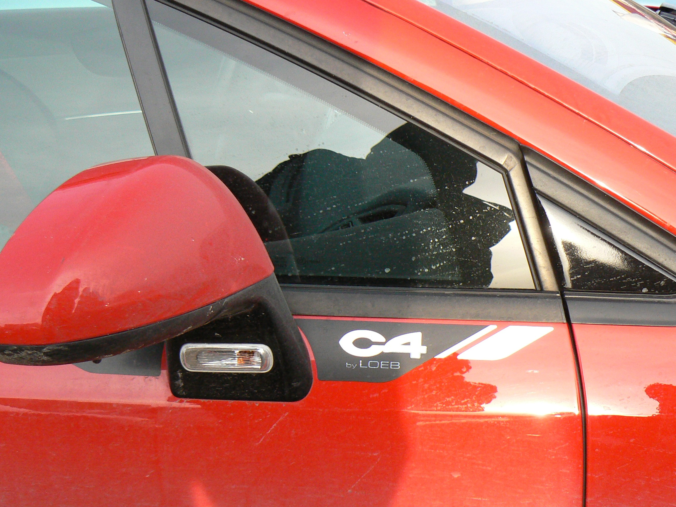 Citroën C4 by Loeb edition. Photo taken in Warsaw, Poland.